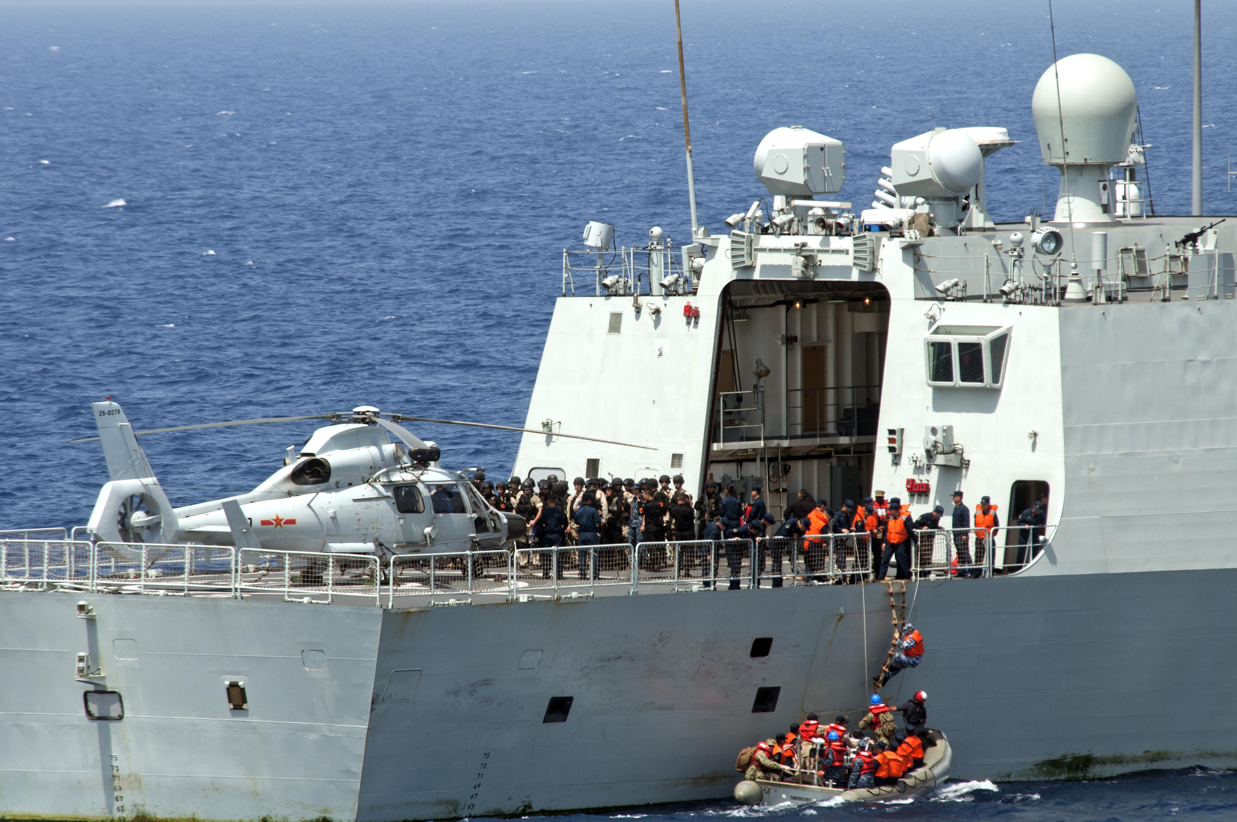 120917-N-YF306-107 GULF OF ADEN (Sept. 17, 2012) Sailors from the guided-missile destroyer USS Winston S. Churchill (DDG 81) board the Chinese People's Liberation Army (Navy) frigate Yi Yang (FF 548) to meet prior to conducting a bilateral counter-piracy exercise. The focus of the exercise was American and Chinese naval cooperation in detecting, boarding, and searching suspected pirated vessels. Winston S. Churchill is deployed to the U.S. 5th Fleet area of responsibility conducting maritime security operations, theater security cooperation efforts and support missions for Operation Enduring Freedom.